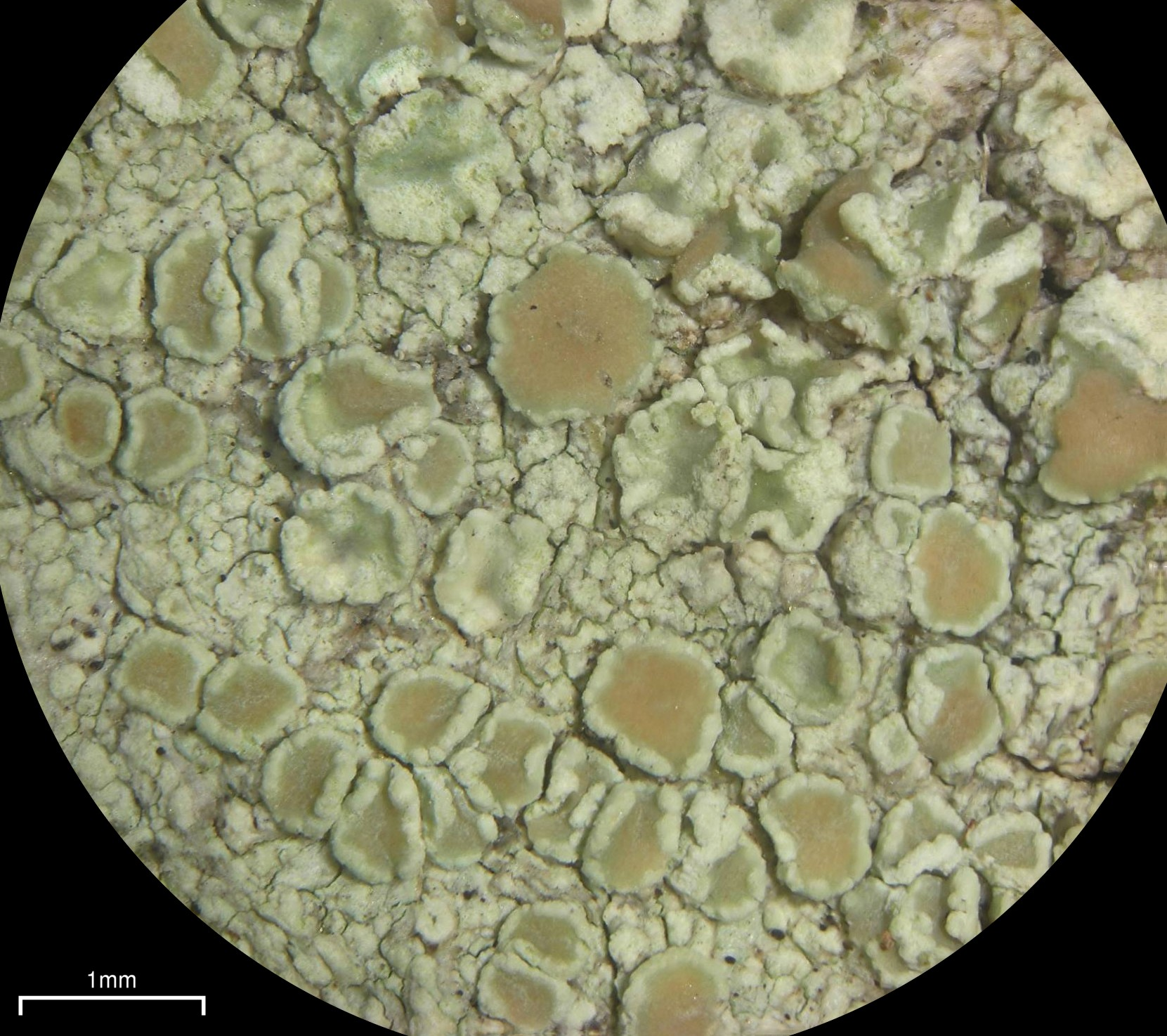 The lichen Lecanora strobilina (Sprengel) Kieffer photographed at 30X magnification; specimen found in Cosby Knob, Great Smoky Mountains National Park, Cocke Co., Tennessee, USA.